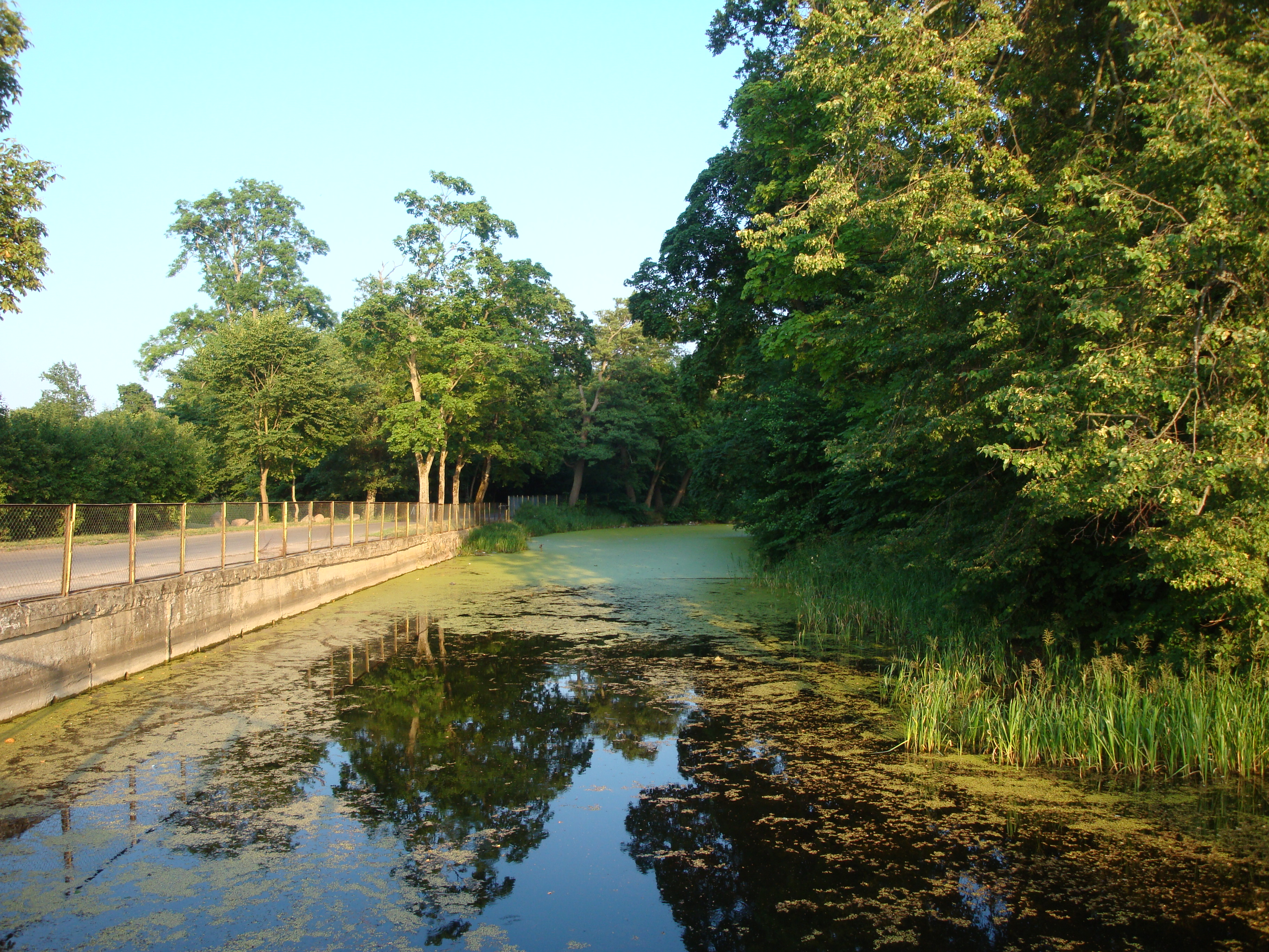 Karżniczka-village in Pomeranian Voivodeship, Poland.